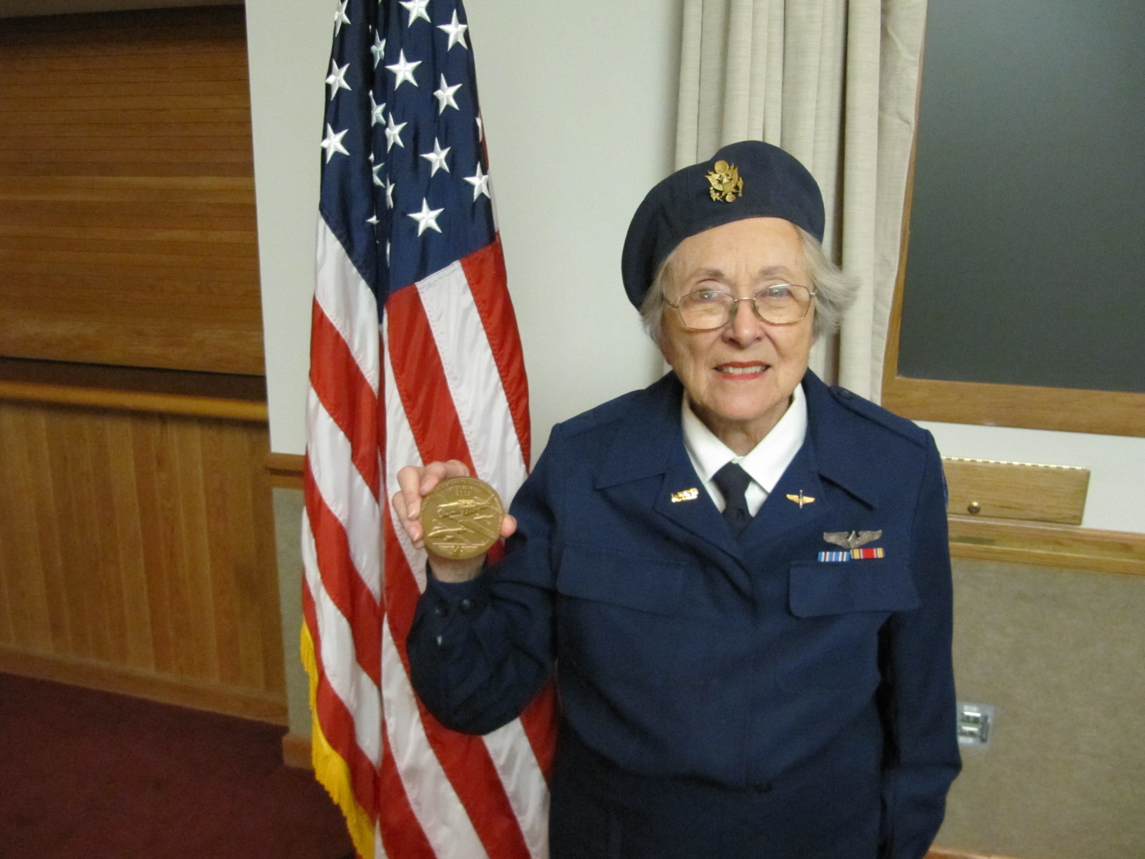 Madge Moore showing the Daedalian Fighter Flight (Nellis AFB, NV) the WASP Congressional Gold Medal she was presented in Washington, D.C.